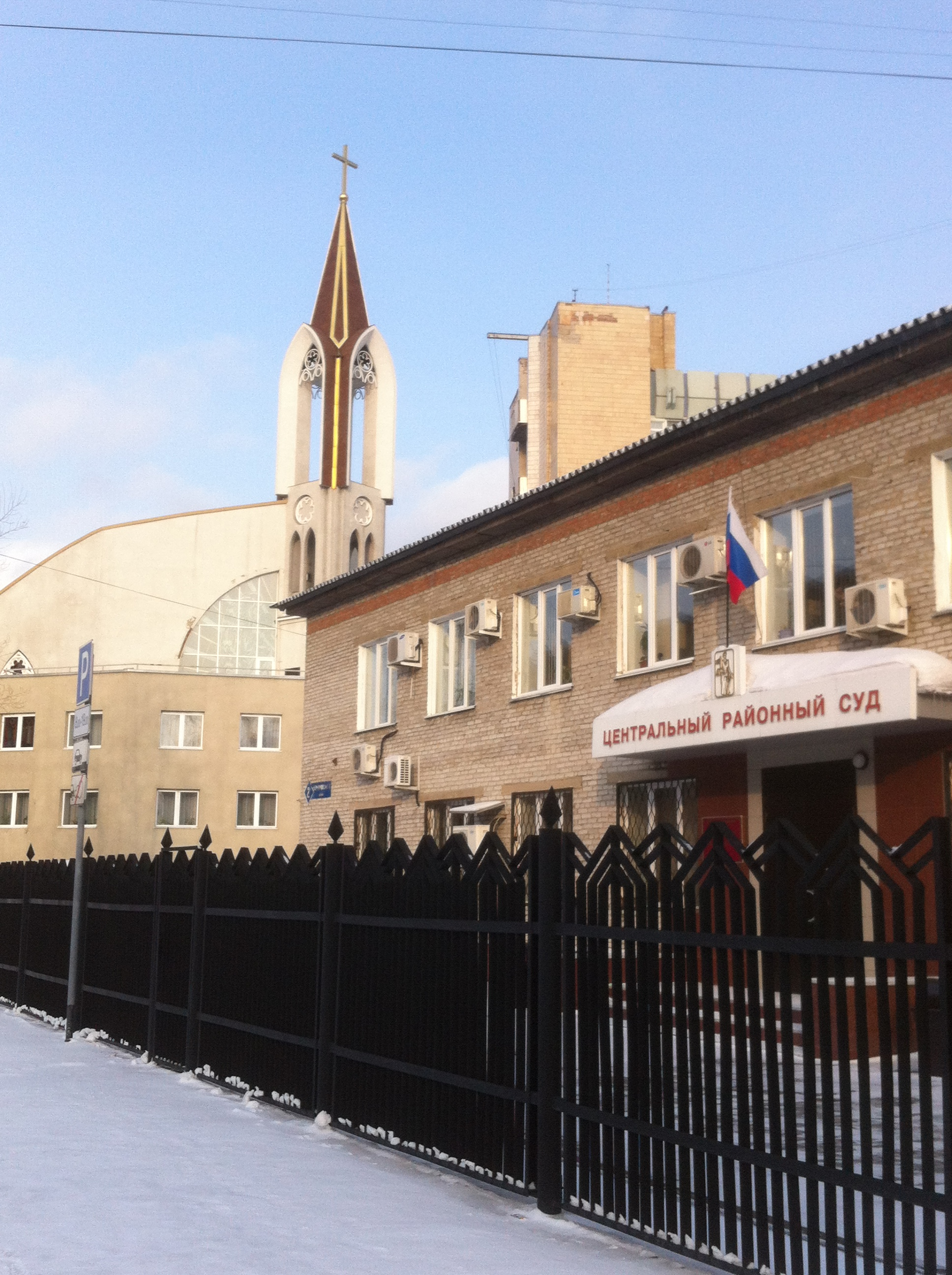 Church of the Immaculate Heart of Mary and criminal court in Kemerovo